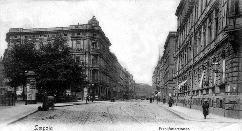 Frankfurter Straße (today Jahnallee) at Leipzig, Saxony, Germany